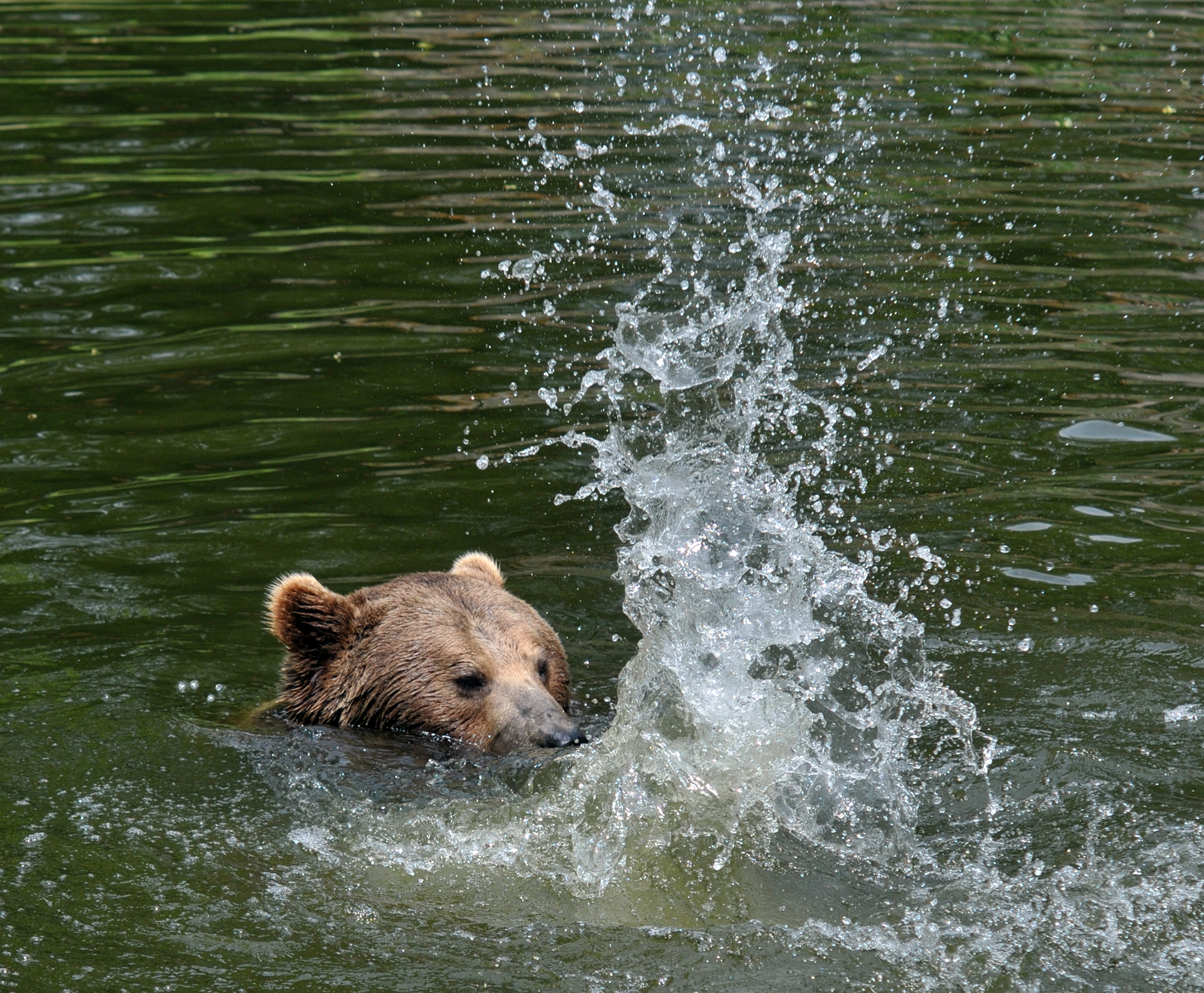 Brown Bear bathing in the Wisentgehege Springe game park near Springe, Hanover, Germany